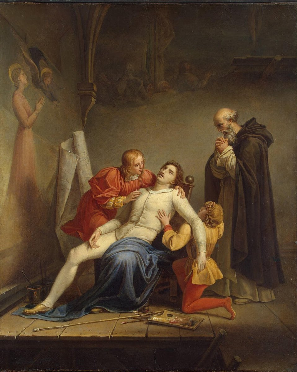 Auguste_Couder_The_Death_of_Masaccio_Hermitage_State_Museum,_Sanct_Peterburg